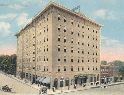 Imperial Hotel, Greenville (Greenville County, South Carolina) - cropped postcard